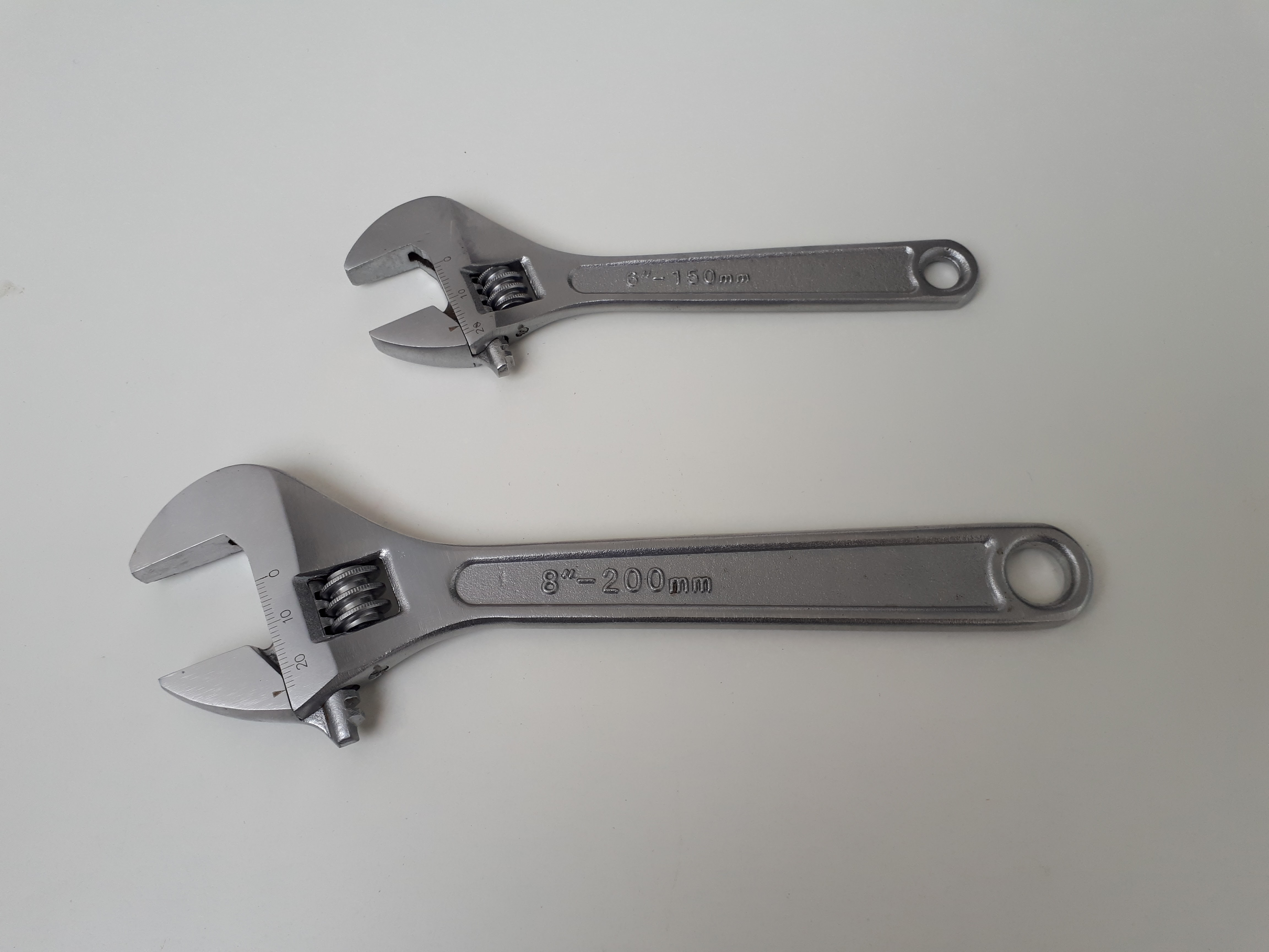 2 adjustable wrenches